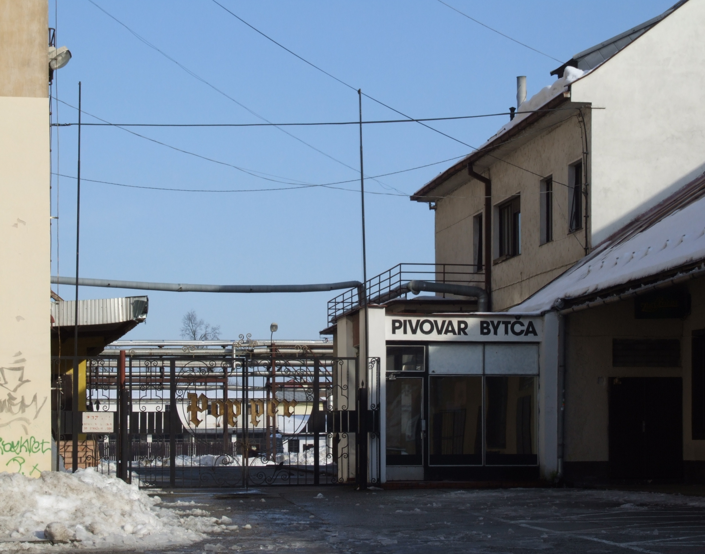 Bytča (Slovakia) - Popper brewery